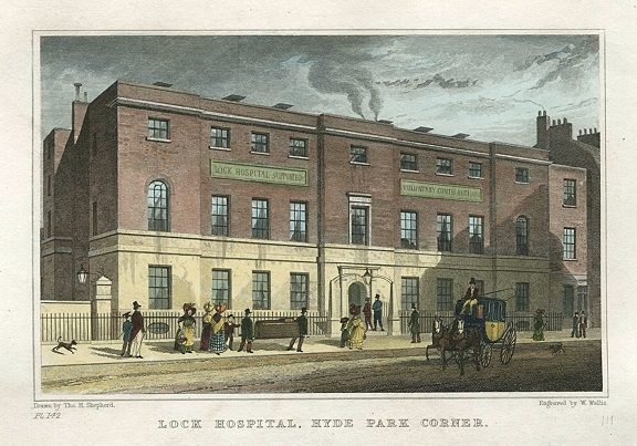 Old print of the London Lock Hospital, Hyde Park Corner